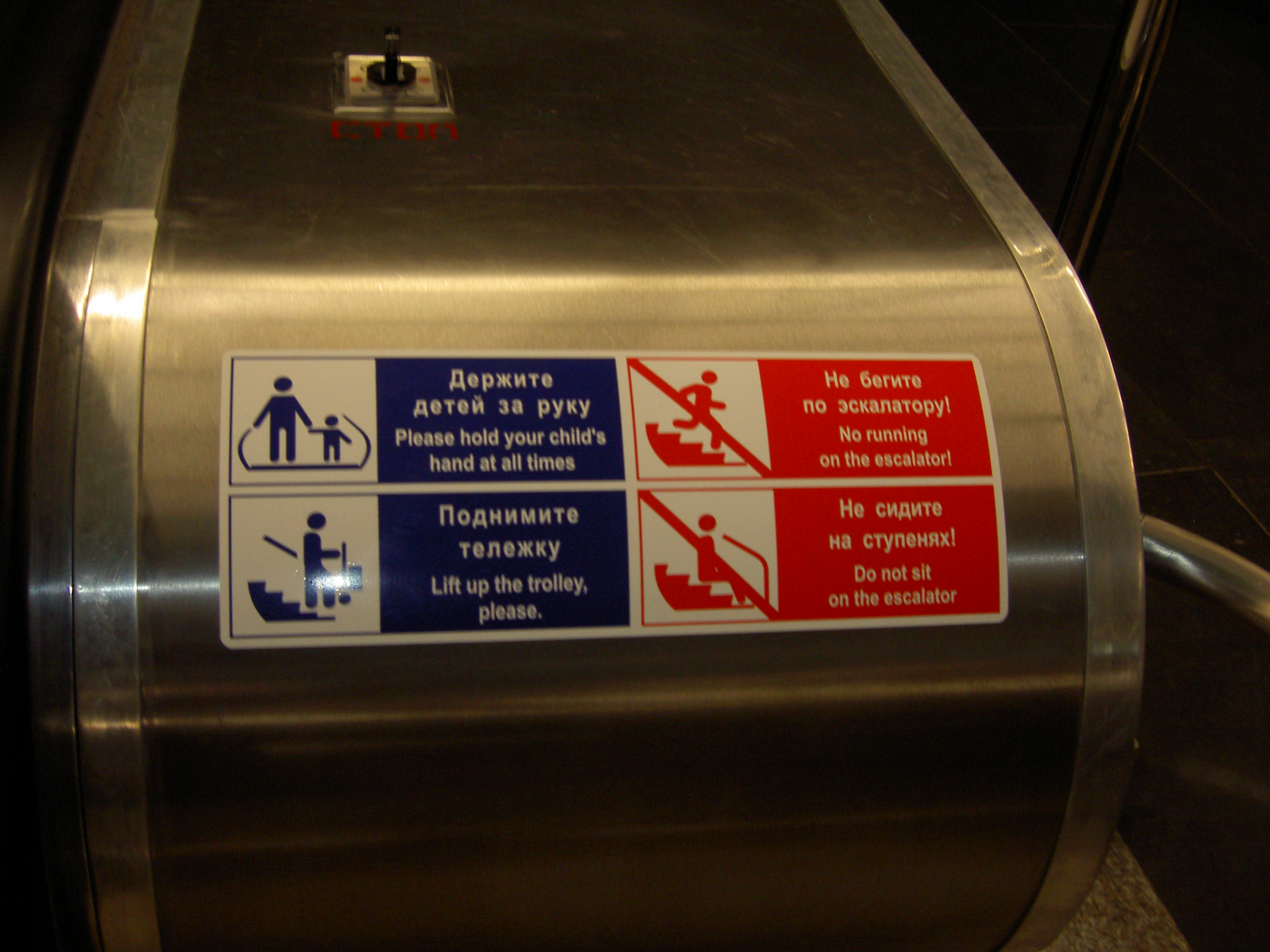 Metro station «Volkovskaya»